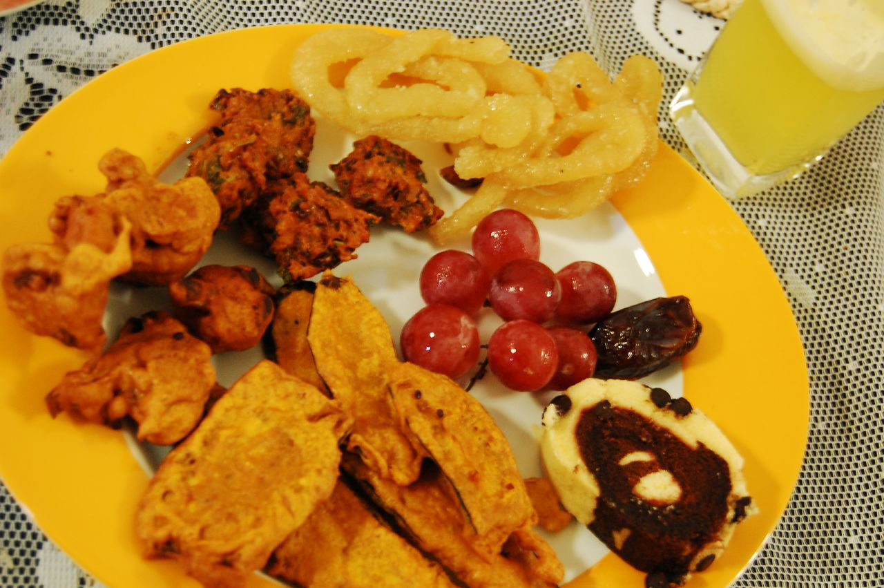 I made beguni today for iftar and it was delicious. See comments for recipe.